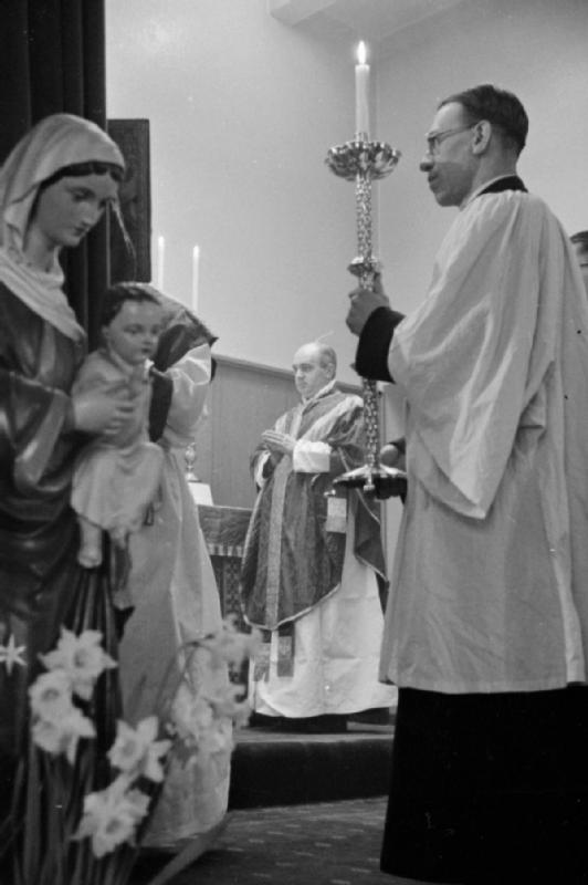 A Church Rises From the Ashes- Worship Continues Following Bomb Damage To St George's Cathedral, Southwark, 1942 A service underway in the Archbishop Amigo Hall, Southwark, which is being used in place of St George's Cathedral, which was badly damaged by an incendiary bomb on 16 April 1941. A candle-bearer and a statue of the Virgin and Child dominate the picture.